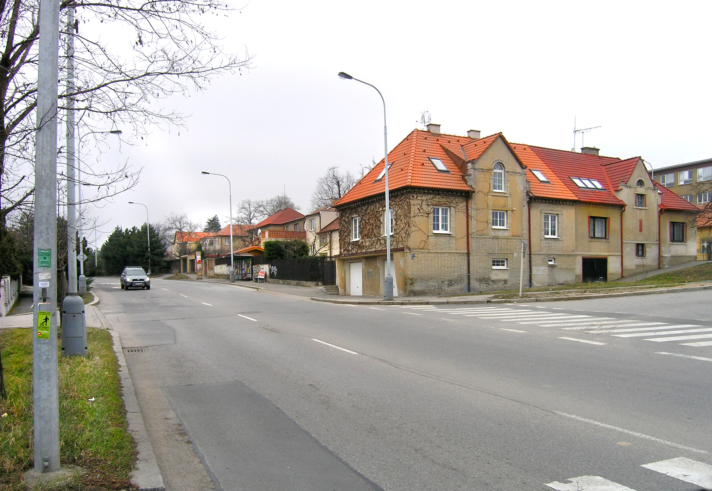 Armády street at Stodůlky, Prague